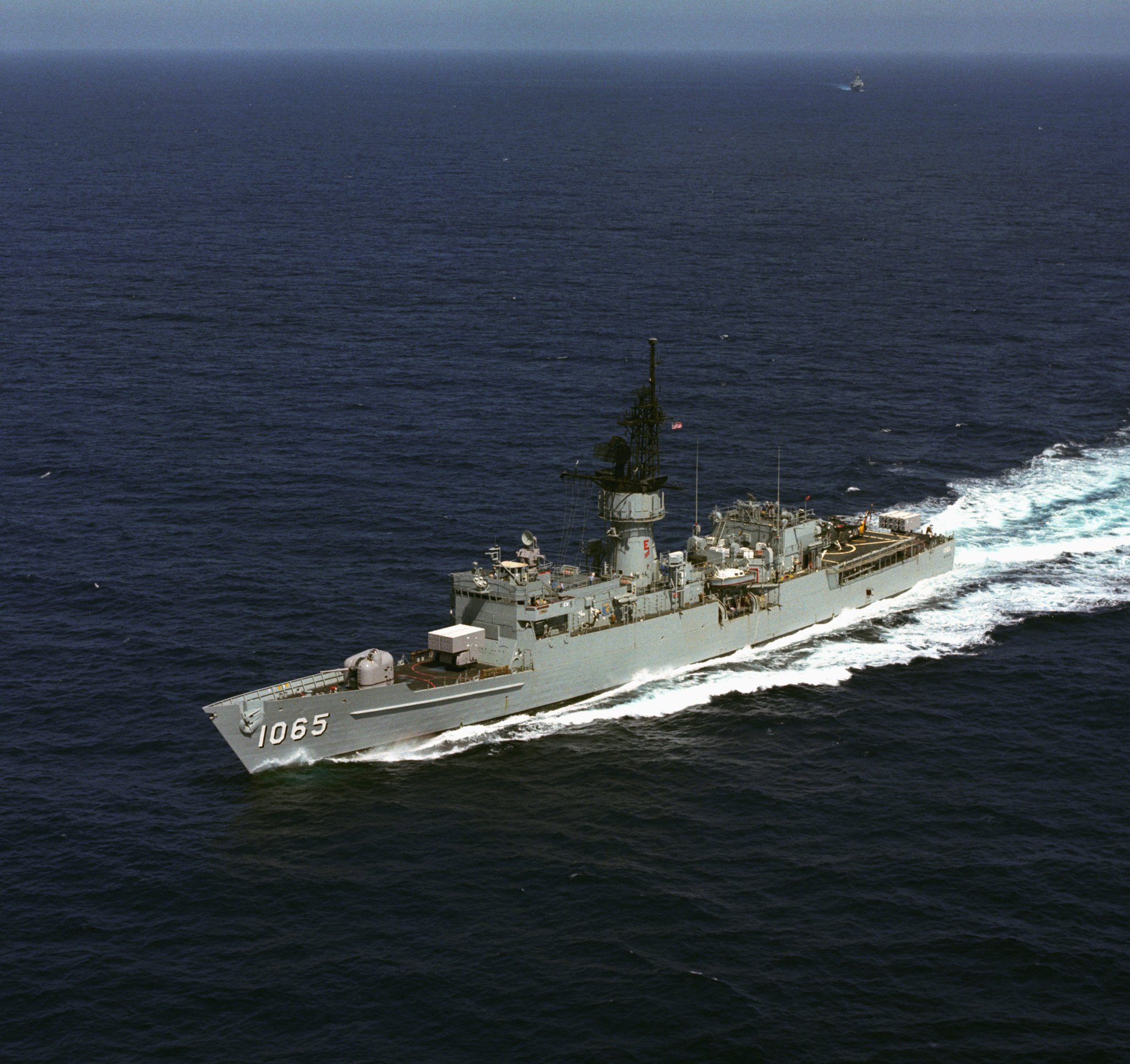 The U.S. Navy frigate USS Stein (FF-1065) underway at sea, circa in 1987.